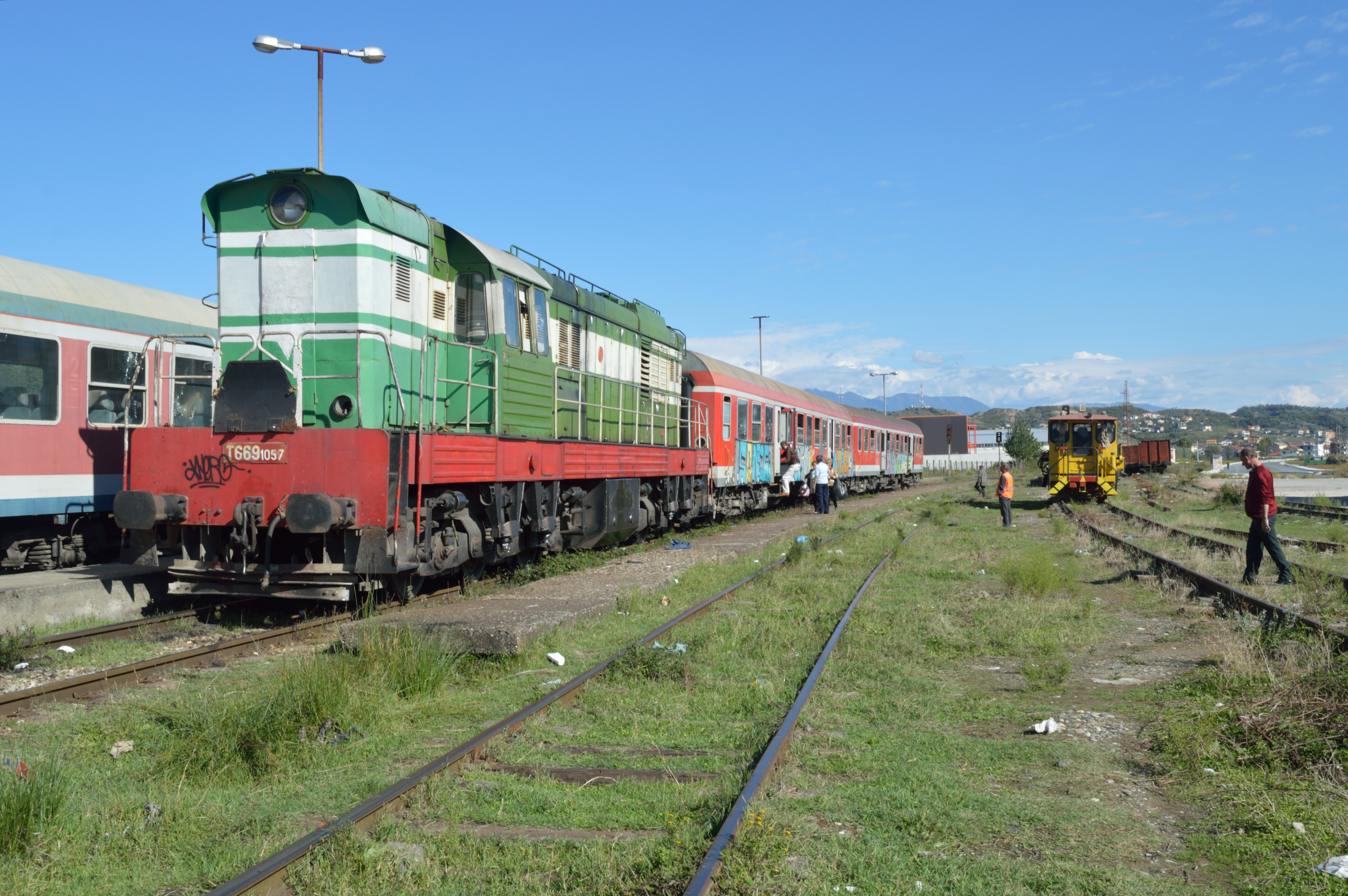 With so few locomotives in service, variety is not the spice of life on the Albanian railways. Seen again is T669.1057 on the 14:15 Vorë to Elbasan service on 2 October 2013. The train left quite late awaiting the rail replacement bus which was heavily delayed by road traffic in Tiranë. However, full credit to the staff who do ensure the train leaves quickly, Unfortunately I did not even have enough time to take a 2nd picture of the two trains side by side before being whistled on to the train in full view here.